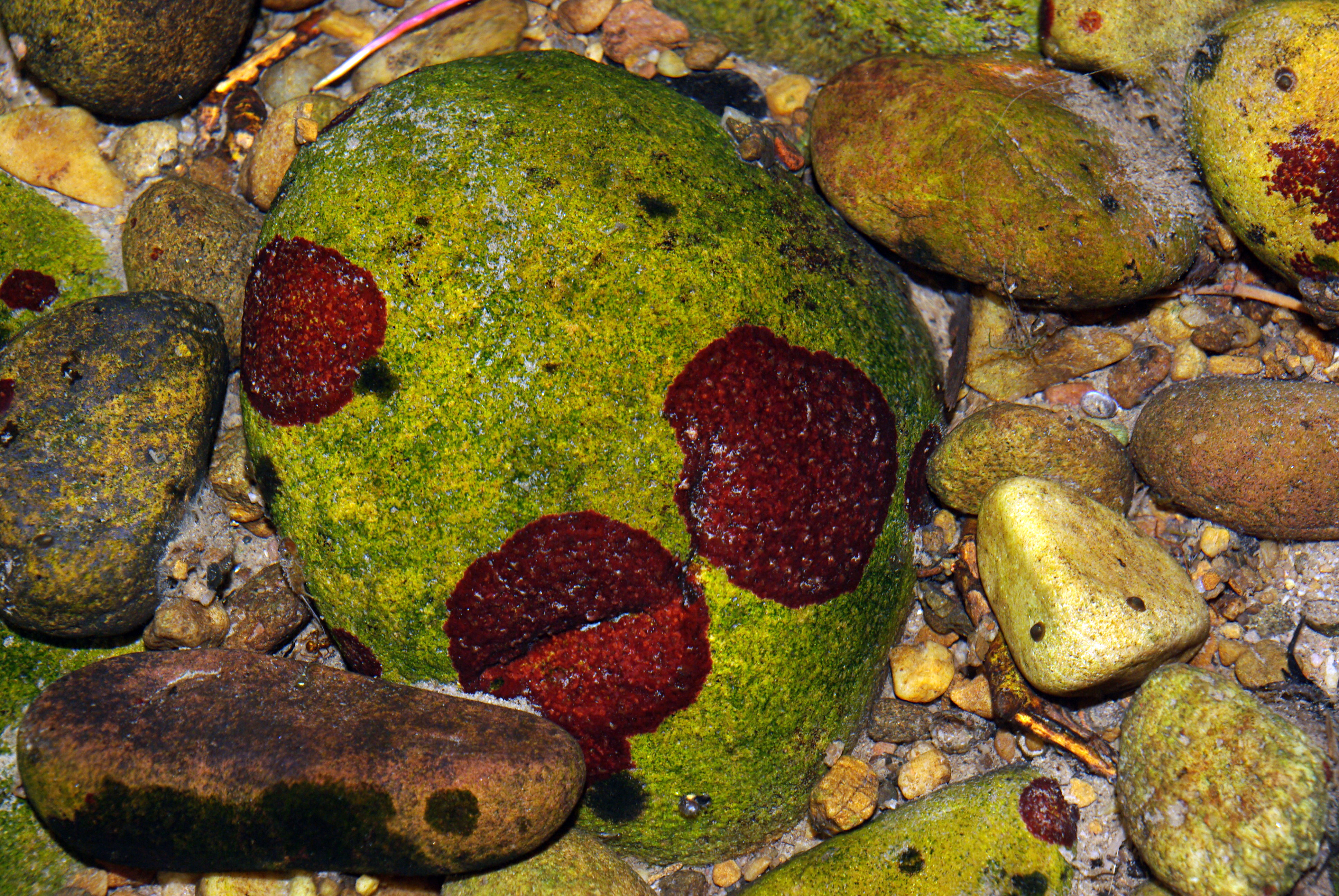 Red algae Hildenbrandia rivularis on stones. River Porma, León (Spain).